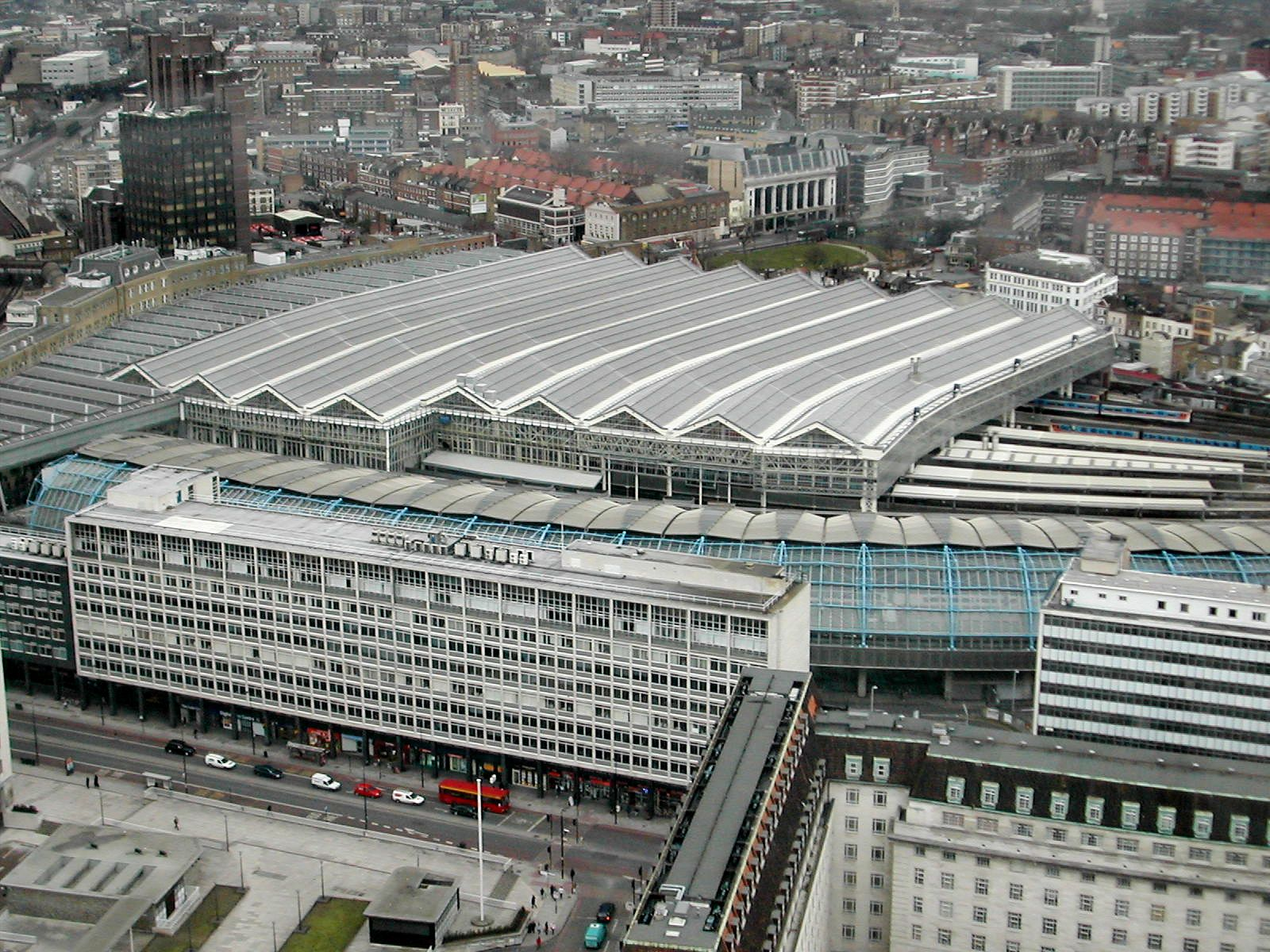 The Waterloo railway station seen from the London Eye